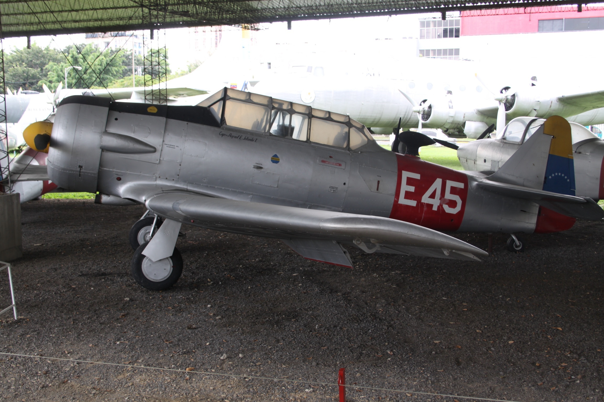 At Museo Aeronáutico de Maracay